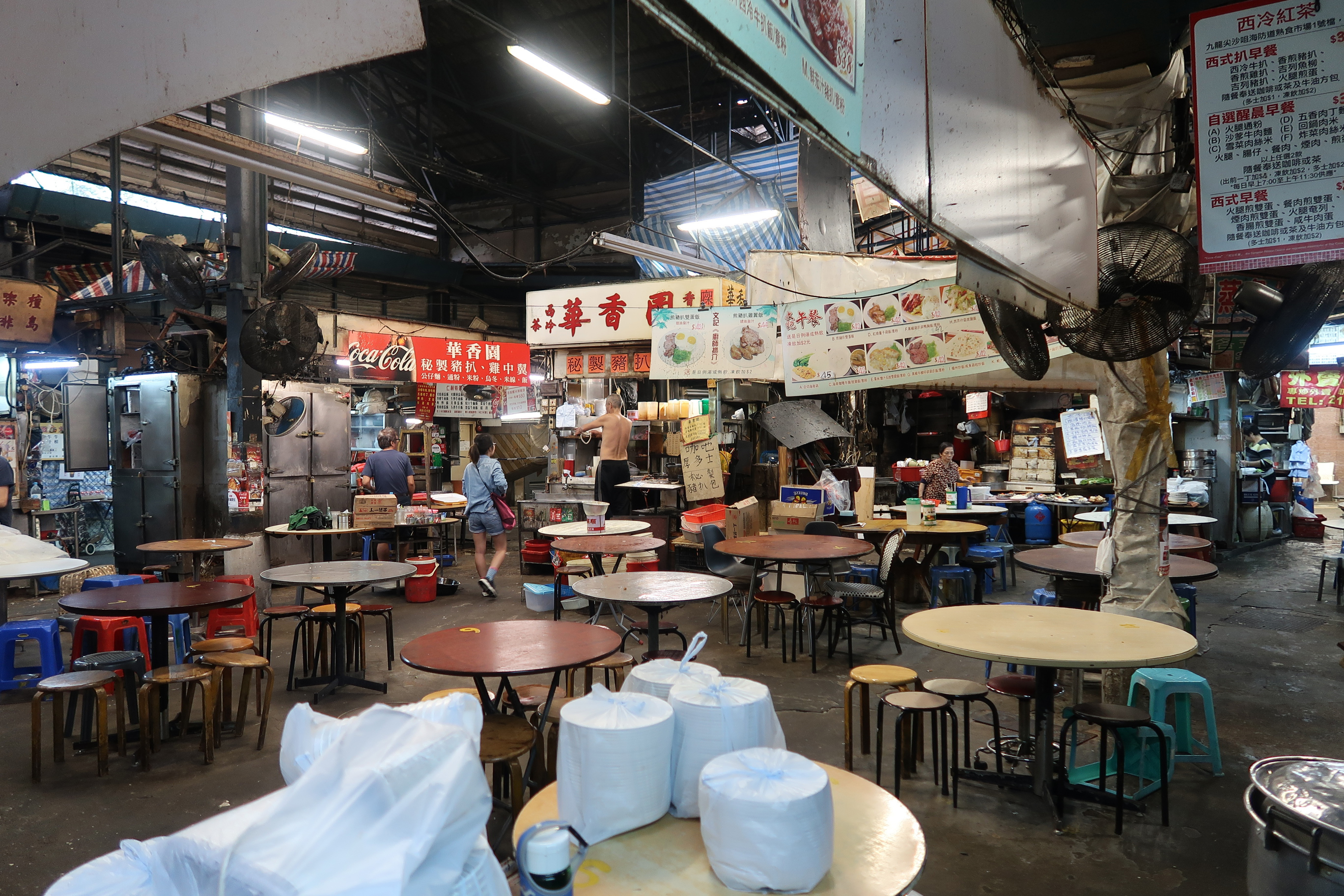 Haiphong Road Temporary Market